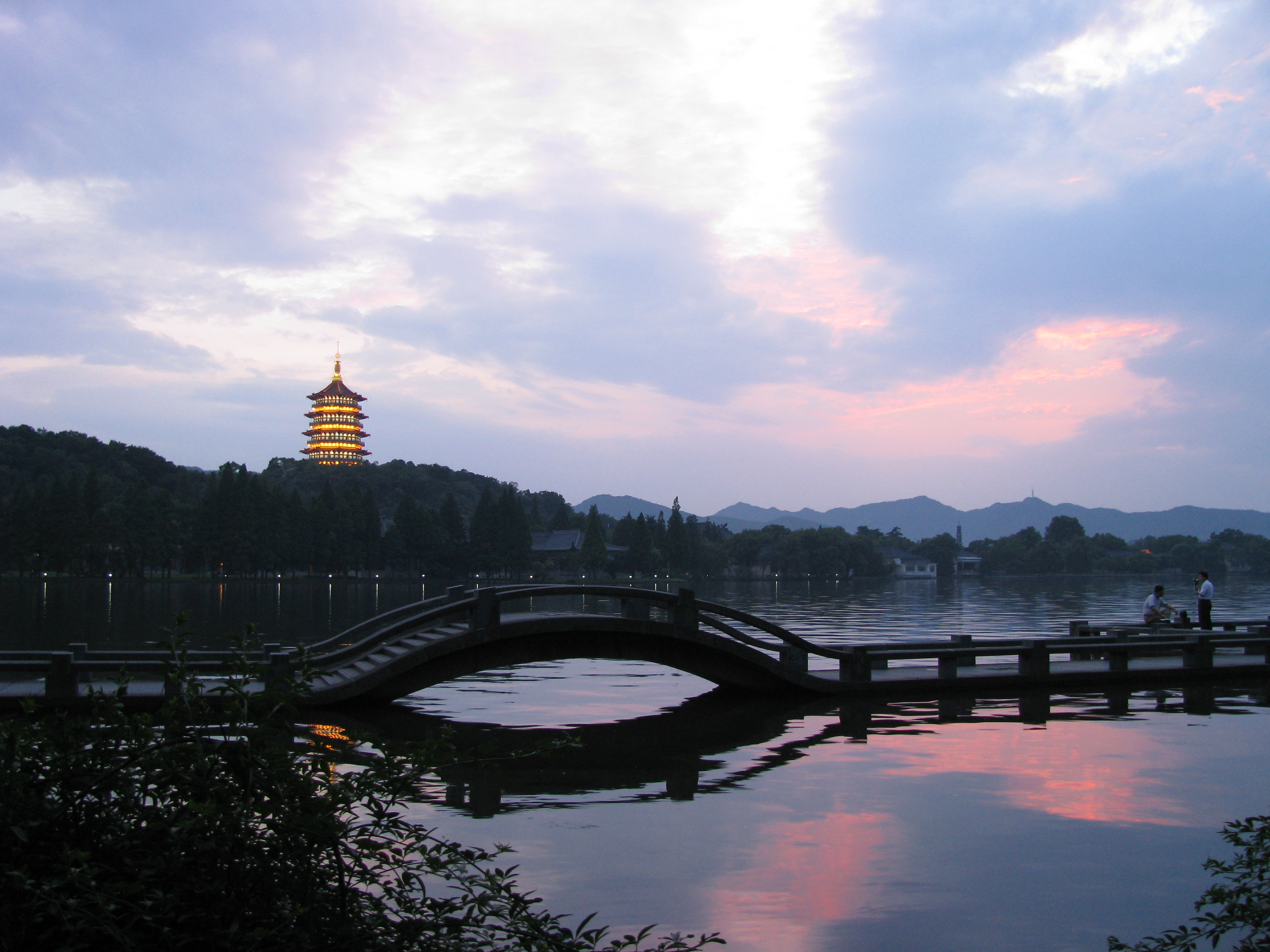 The beautiful tower on the horizon is Leifeng Pagoda (Léifēng Tǎ)